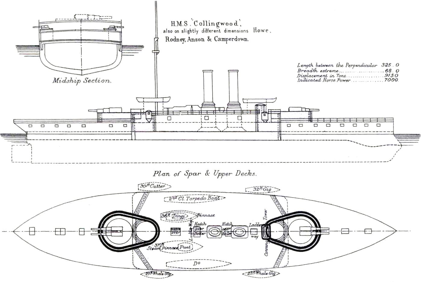 Diagrams showing right elevation, midship hull section and deck plan of British battleship HMS Collingwood.